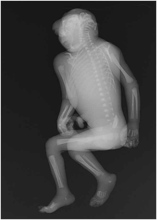 X-ray of a stillborn child with anencephaly, a neural tube defect where the brain and top of skull do not form.